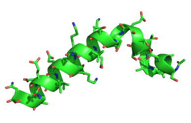 NMR structure of thymosin alpha-1 PDB 2l9i